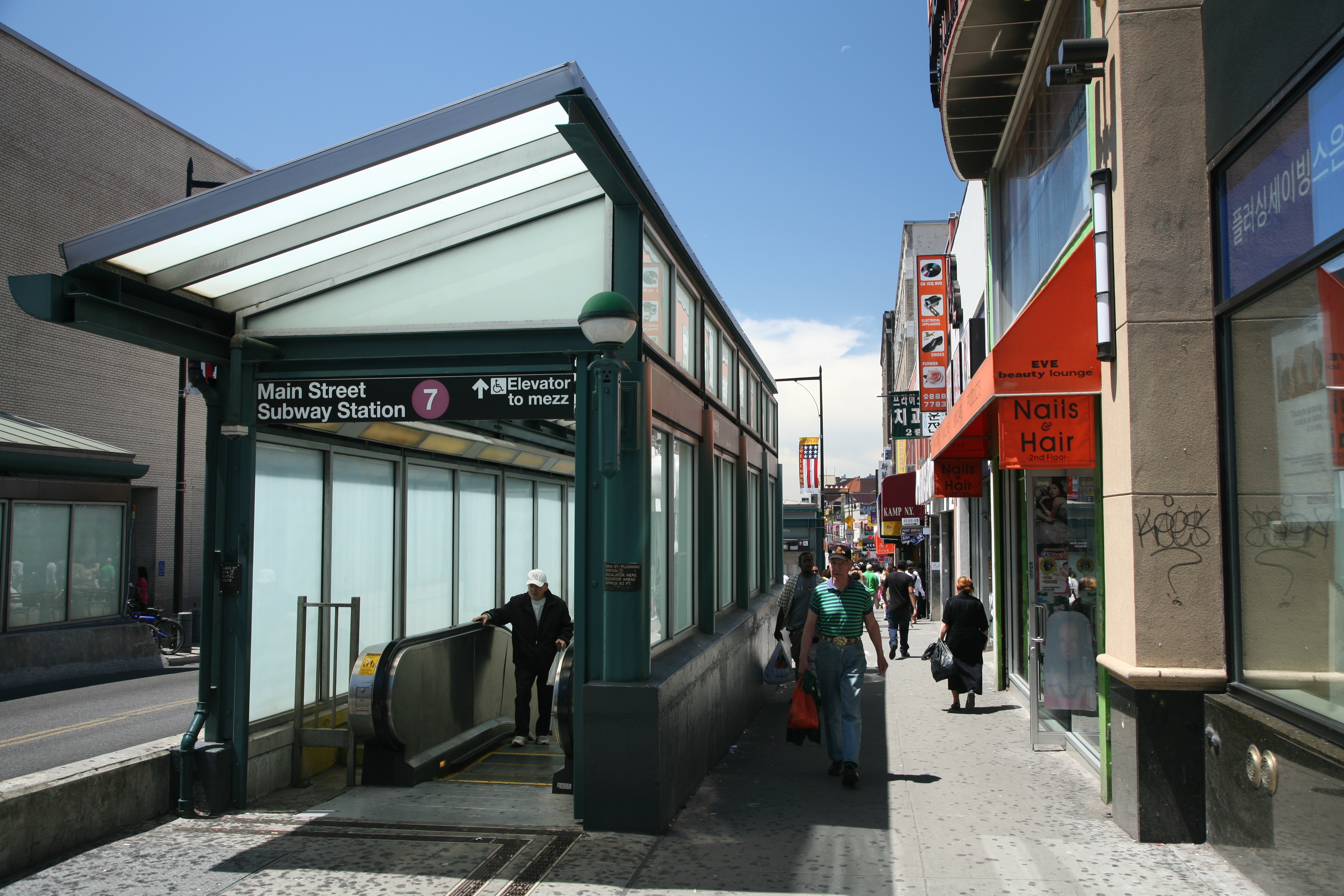 Main Street Flushing station, New York City Subway